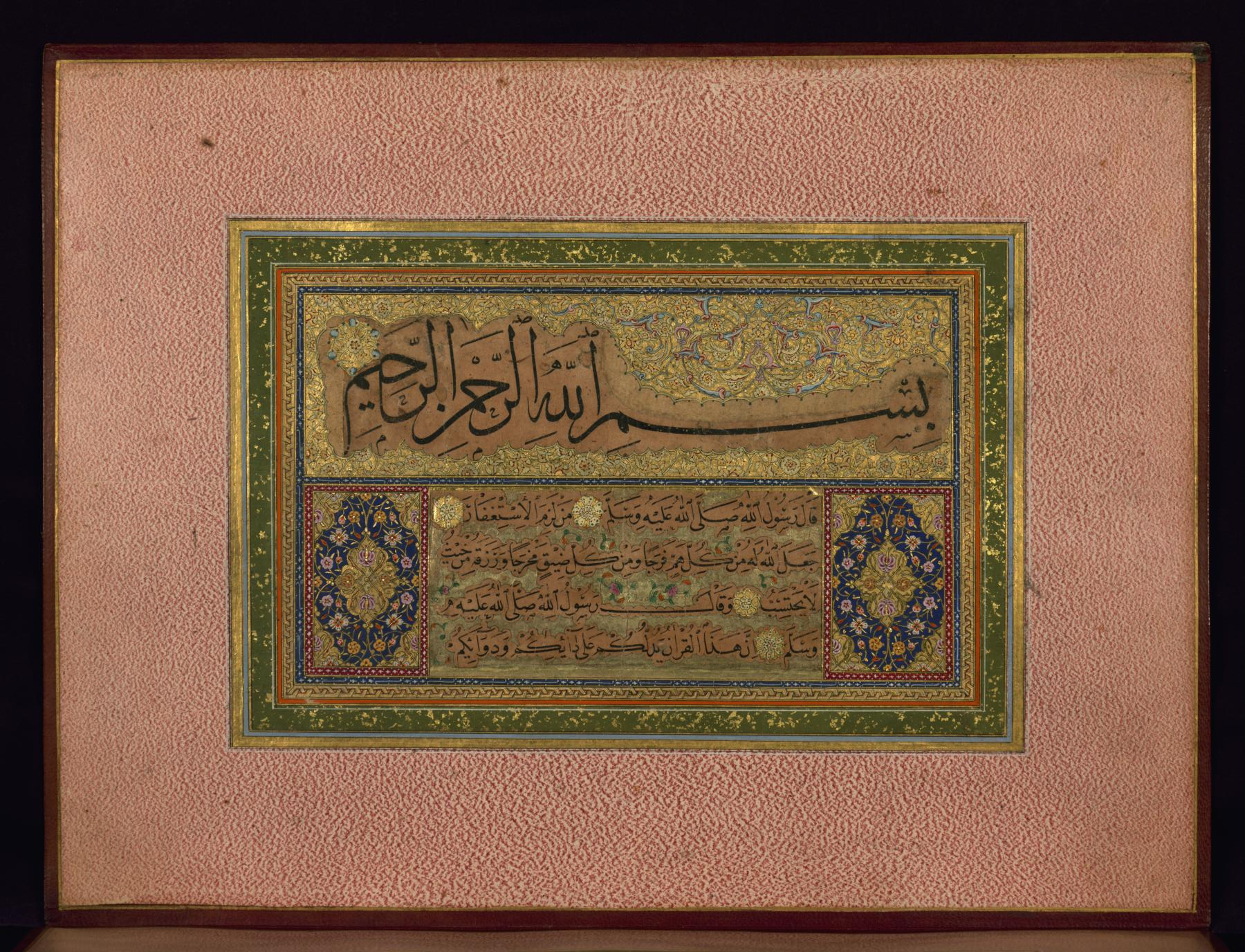 This folio from Walters manuscript W.672 is inscribed with passages from hadith literature (accounts of what the Prophet Muhammad did or said) and is written in Naskh and Thuluth scripts. Naskh, the smaller hand, is used for the text on the lower portion, while Thuluth (the larger hand) is used for the top lines.